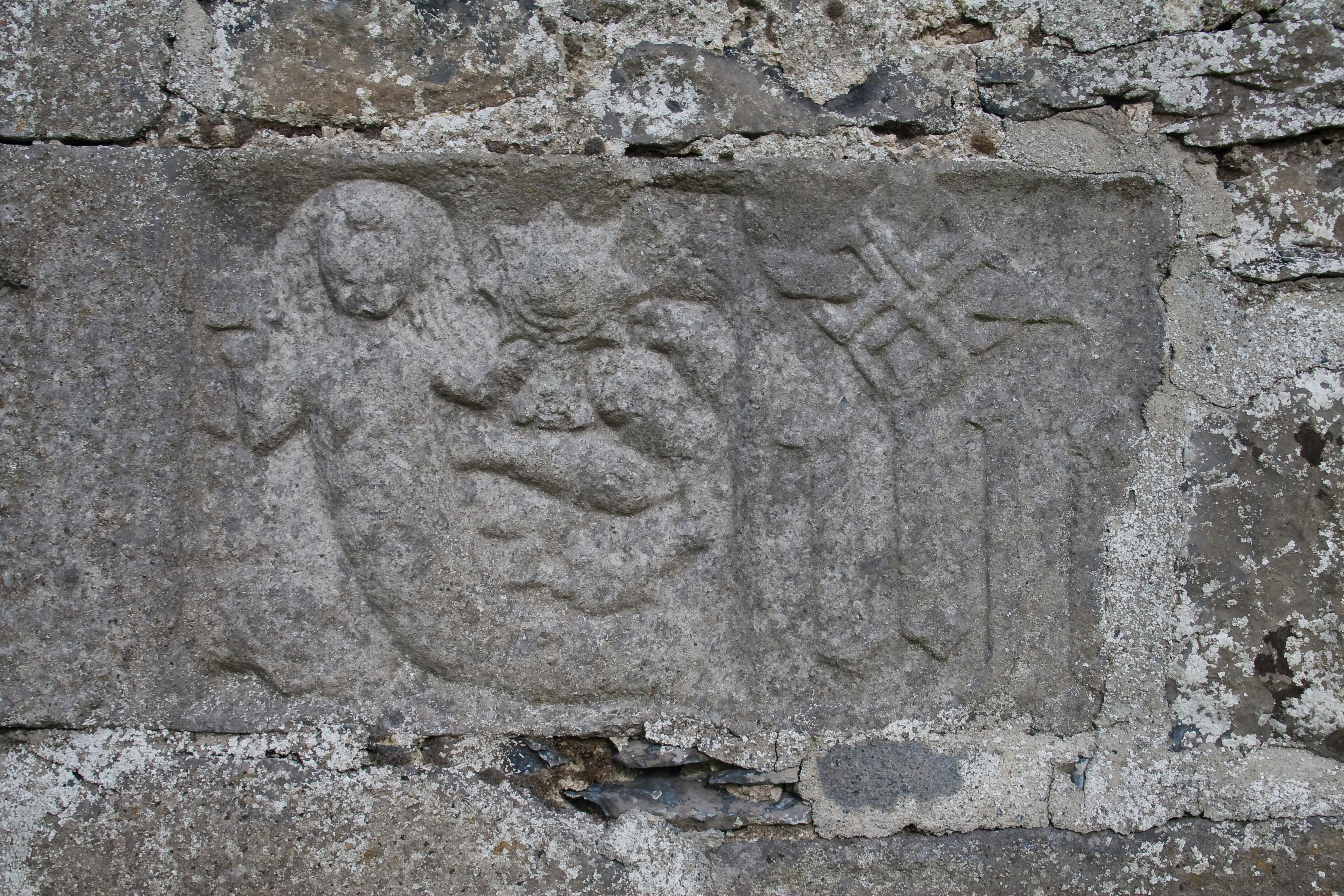 Clontuskert Priory, County Galway, Ireland Relief of a mermaid at the doorway to Clontuskert Priory.